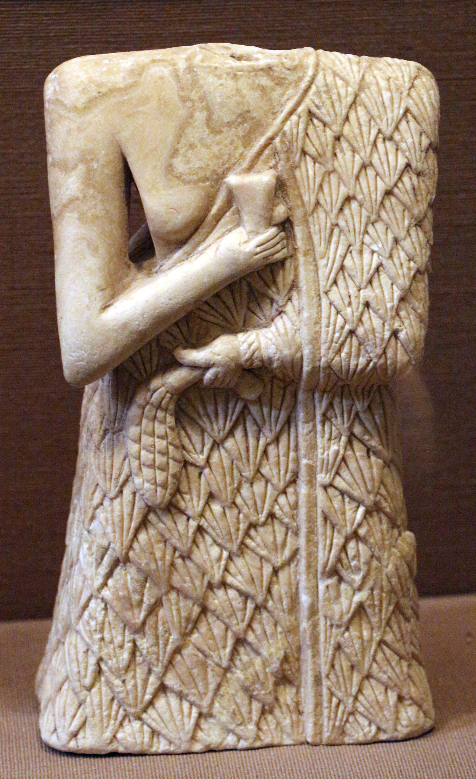 Mesopotamian antiquities in the Oriental Institute Museum